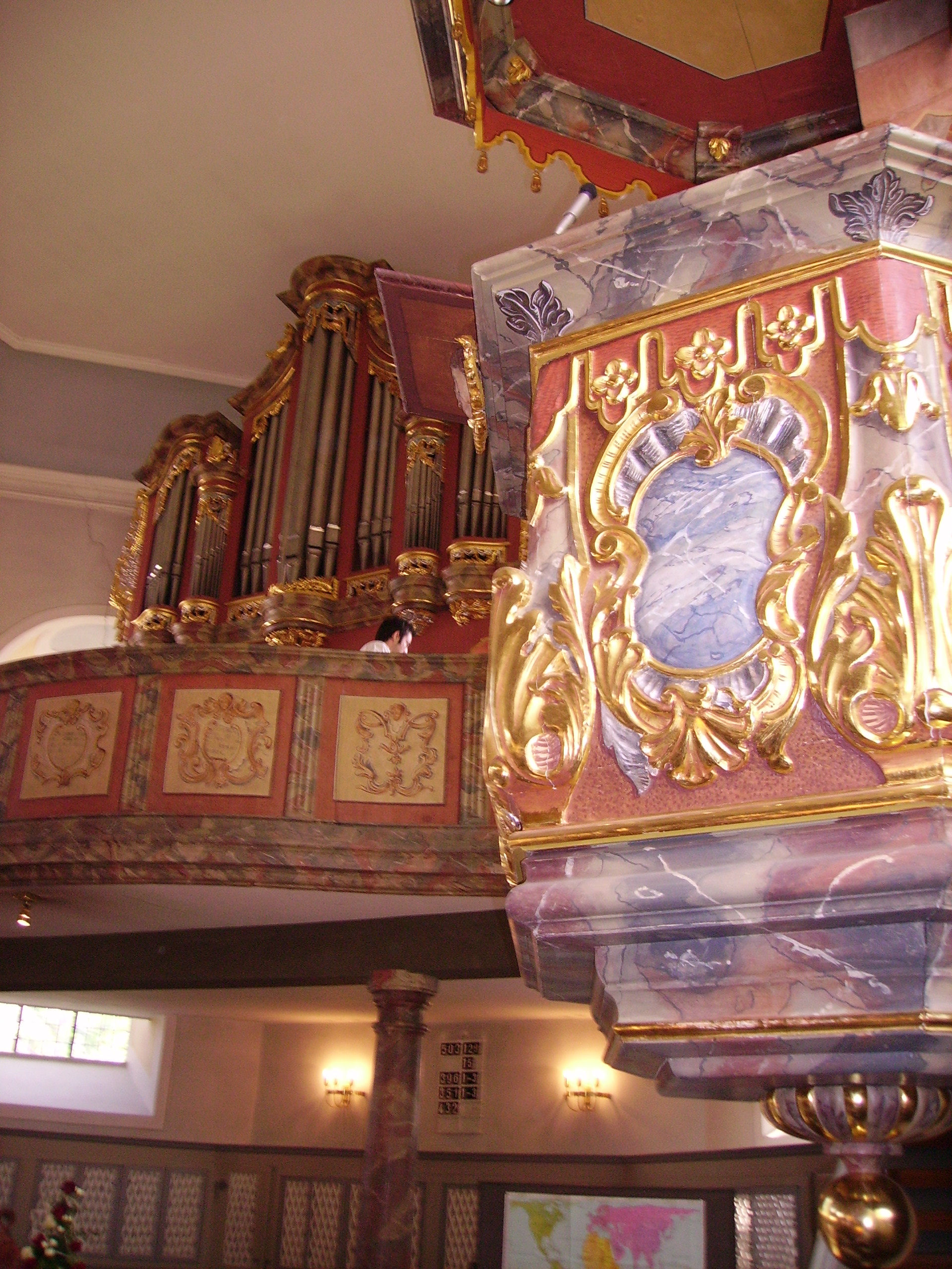 church in Mutterstadt, Germany